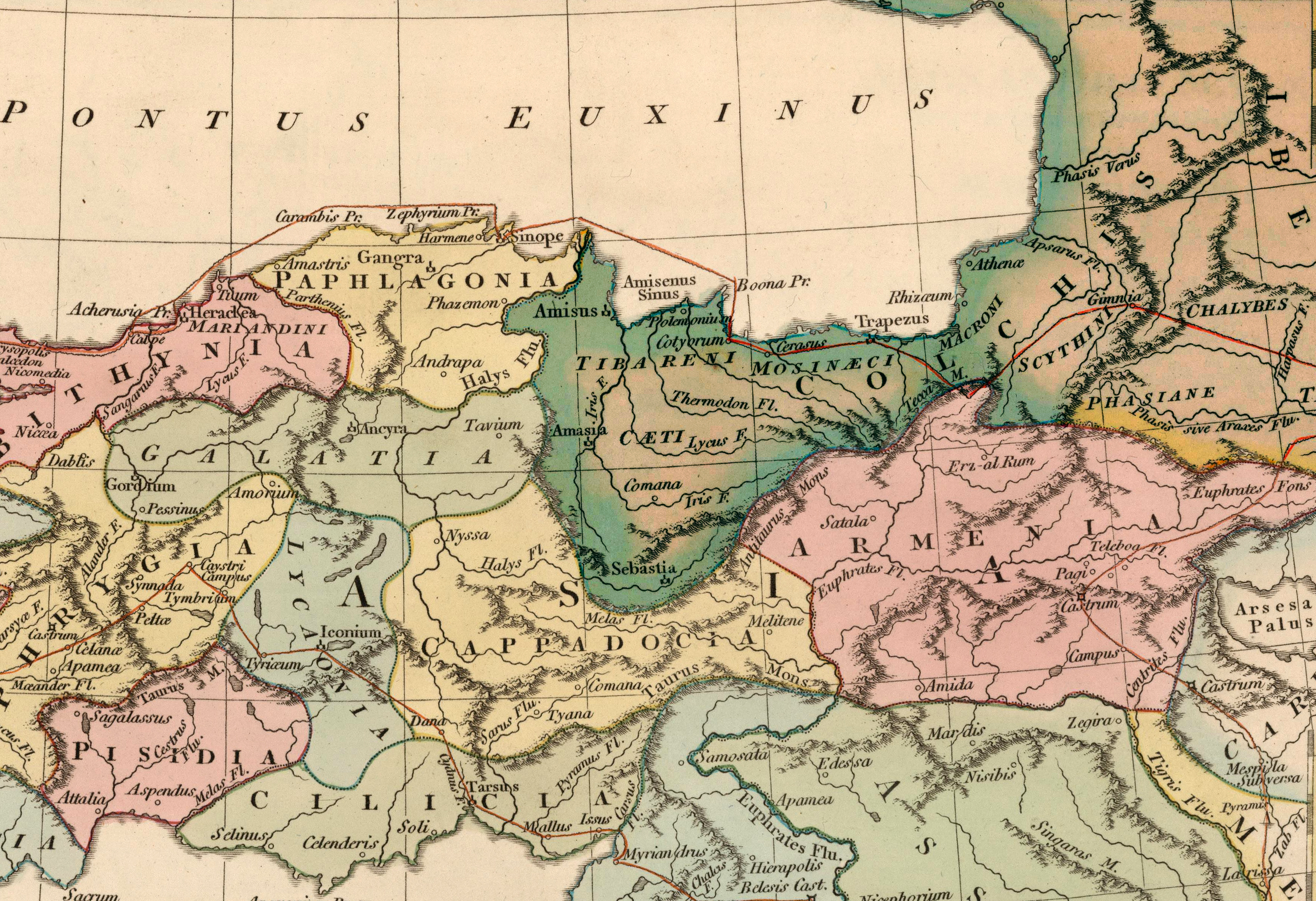 Central and southern parts of Colchis and part of Iberia. From "Reditus Decem Millium Graecorum", 1815